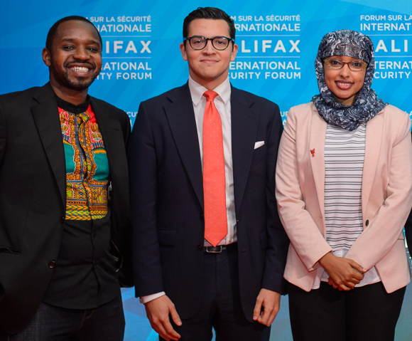 2017 Halifax International Security Forum Participants (L-R): Boniface Mwangi, Imad Mesdoua, Fauziya Ali, Tolu Ogunlesi, Japheth Omojuwa